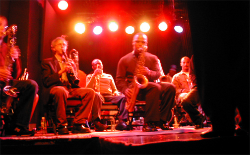 At the Knitting Factory, NYC, 31 January 2005Butch Morris and Conduction